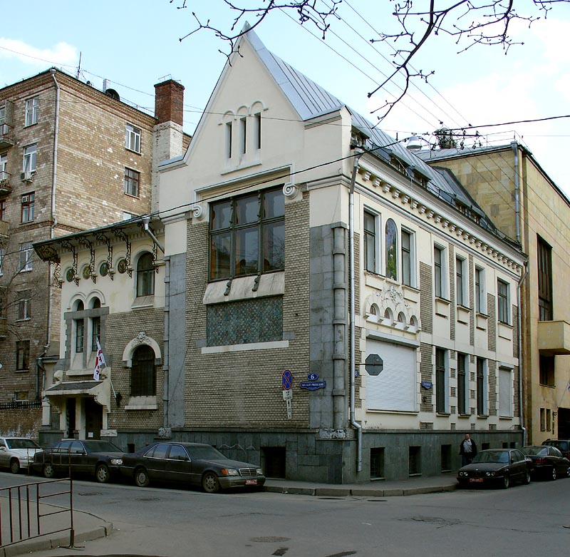 18 Khlebny Lane, Moscow (corner of Maly Rzhevsky Lane). Own house by architect Sergey Solovyov